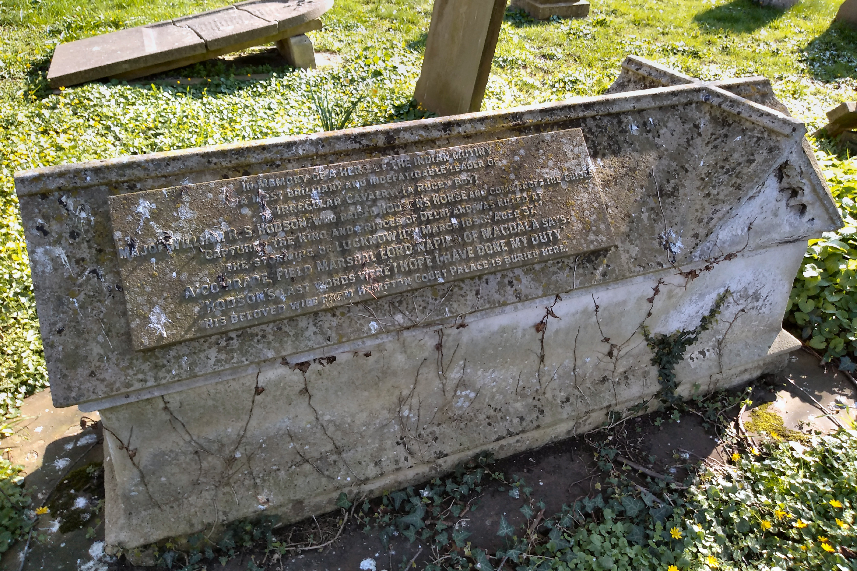 Hampton Cemetery, memorial to William Hodson (d 1858). His wife Susan Annette Hodson is buried here (died 08/11/1884)